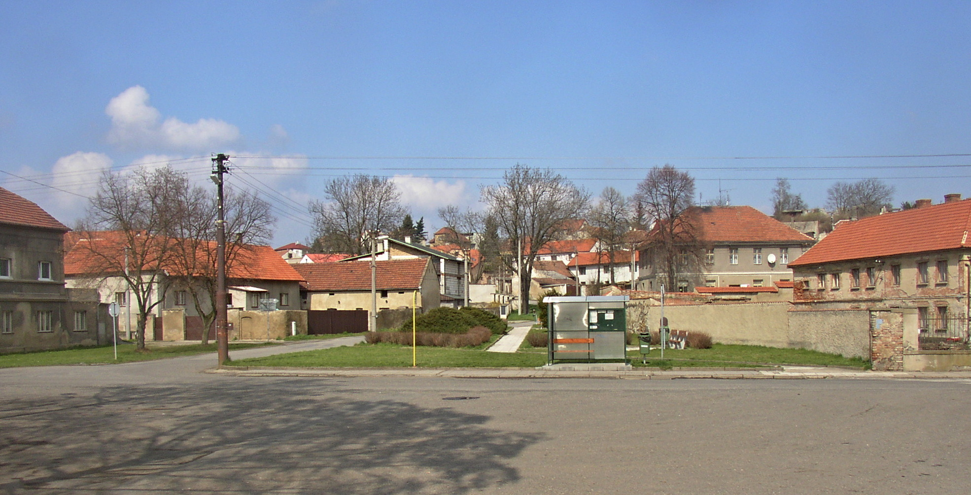 Koleč, Kladno District, Czech Republic. Centre of the village as seen from south.